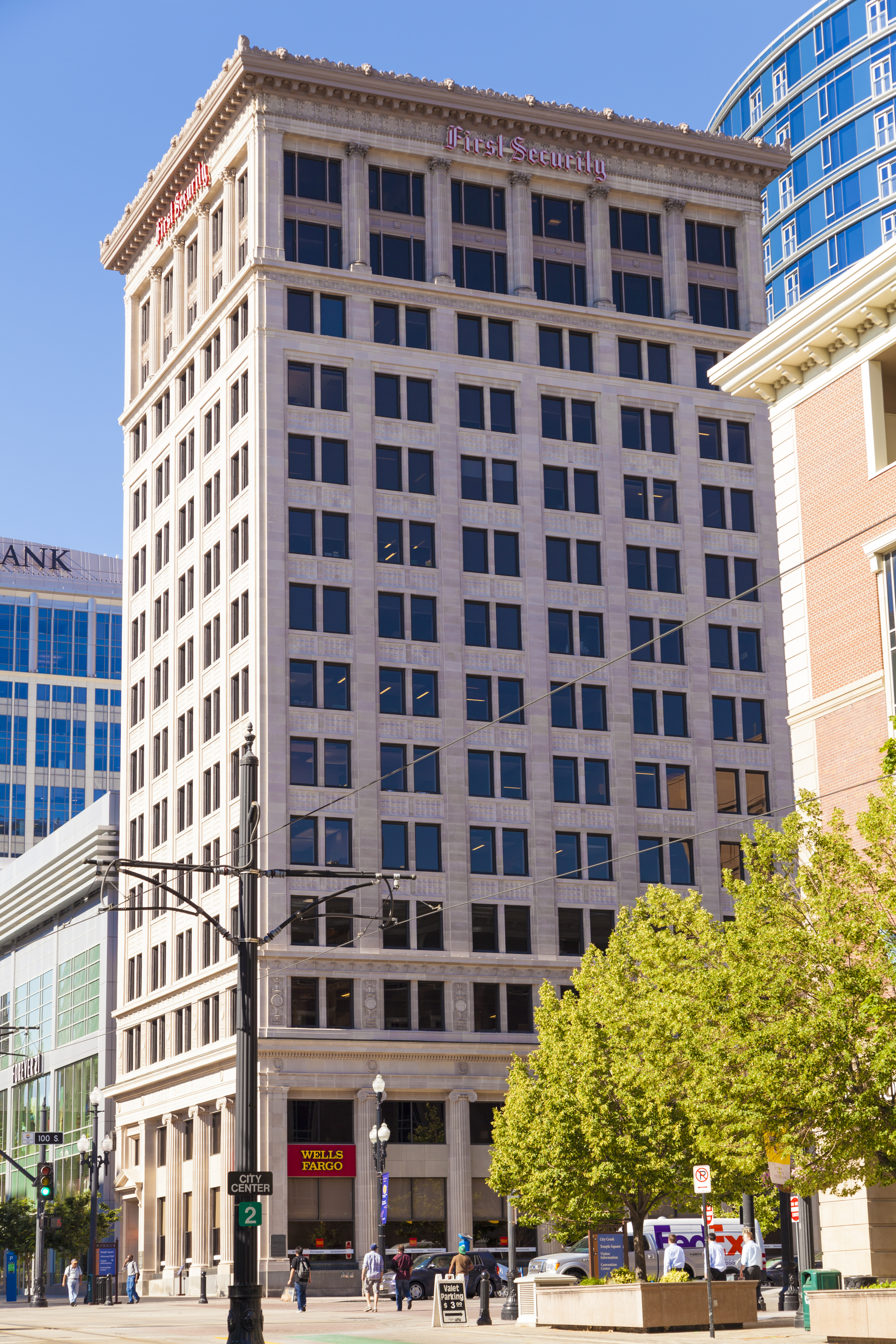 The Deseret Building in Salt Lake City, Utah. This building is also known as the First Security Building.